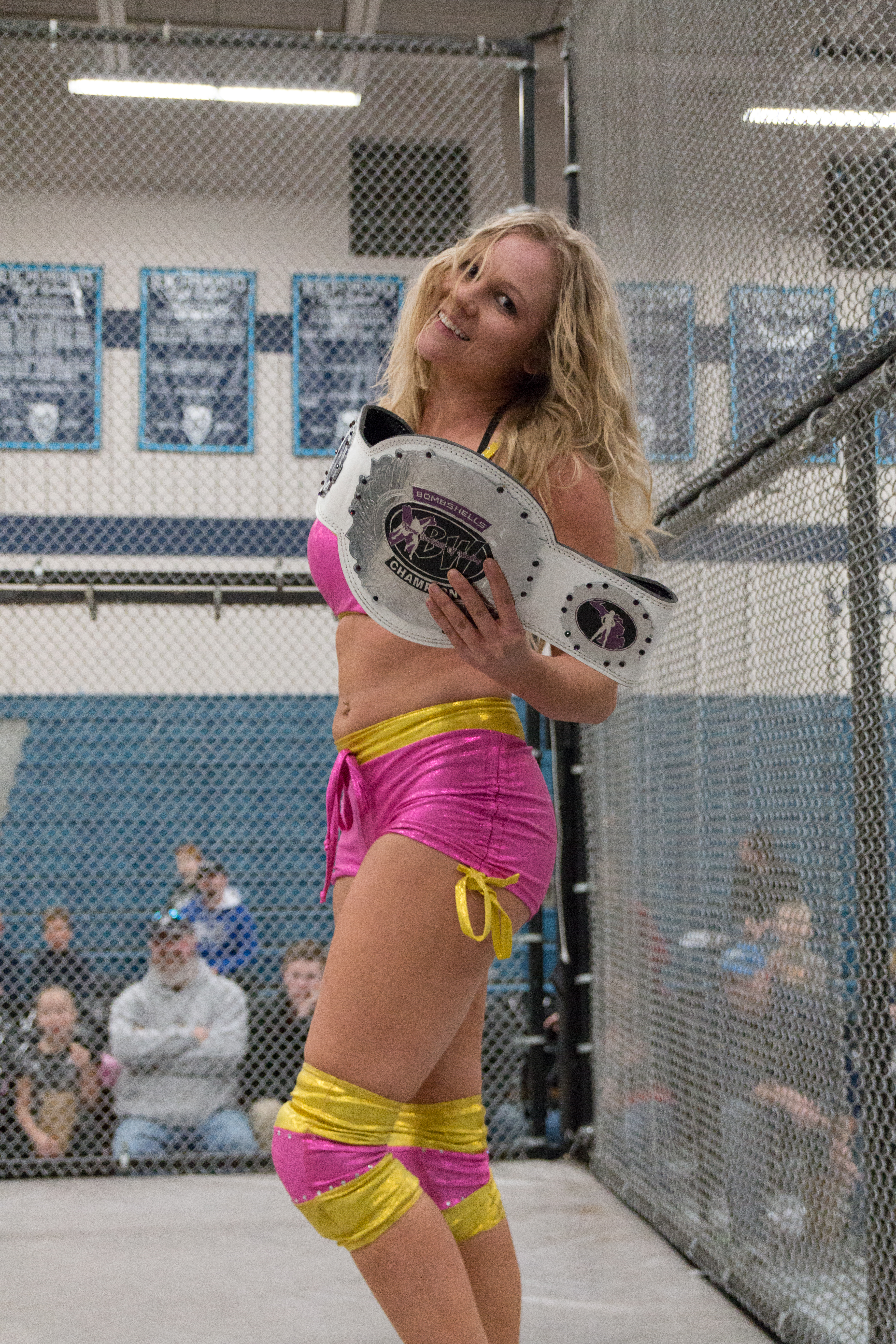 Independent wrestler Leah von Dutch holding the Xtreme Bombshell Wrestling's Bombshells Champion belt